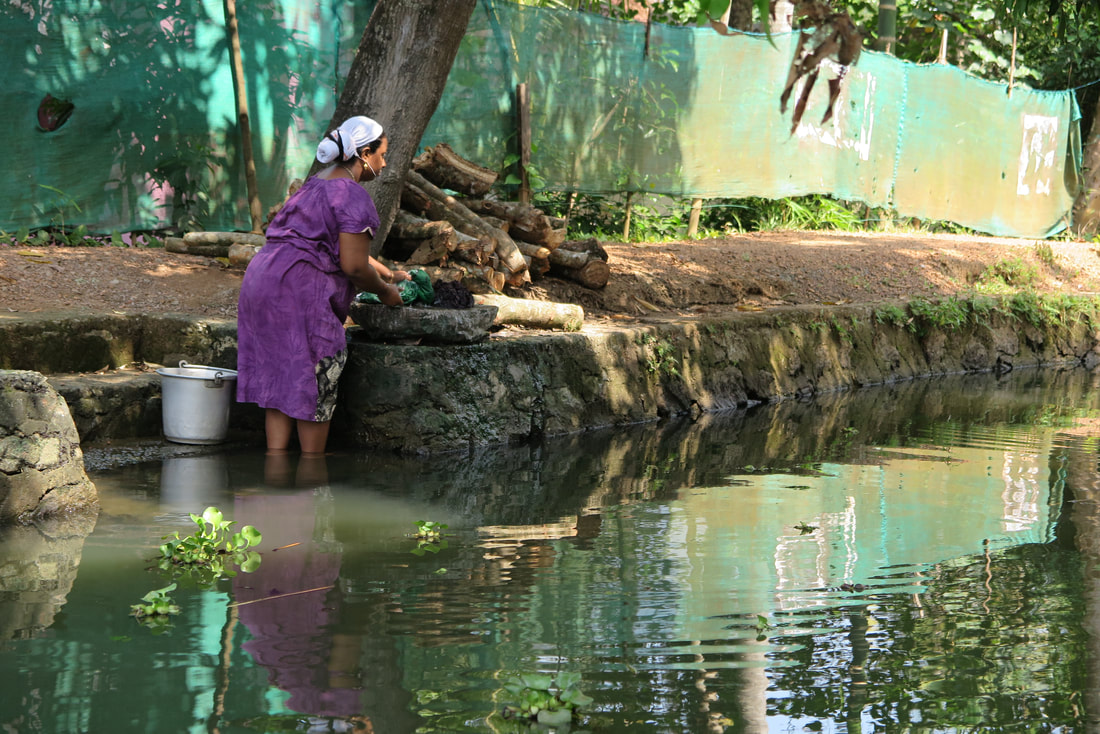 Photography by Jan Serr of south India